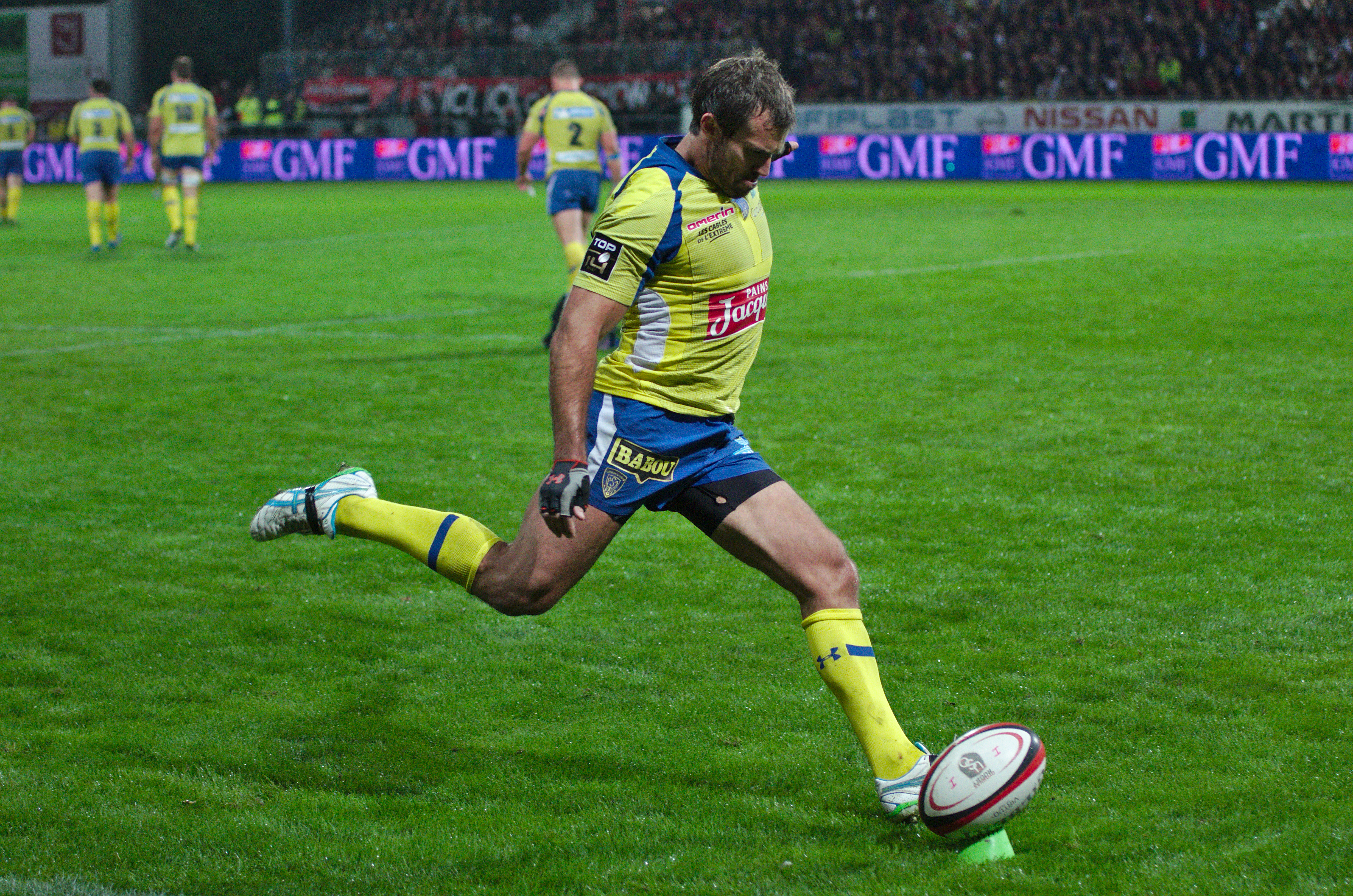 USO-ASM - 20140927 - Brock James